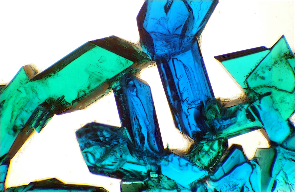 Copper(II) acetate monohydrate, dichroic